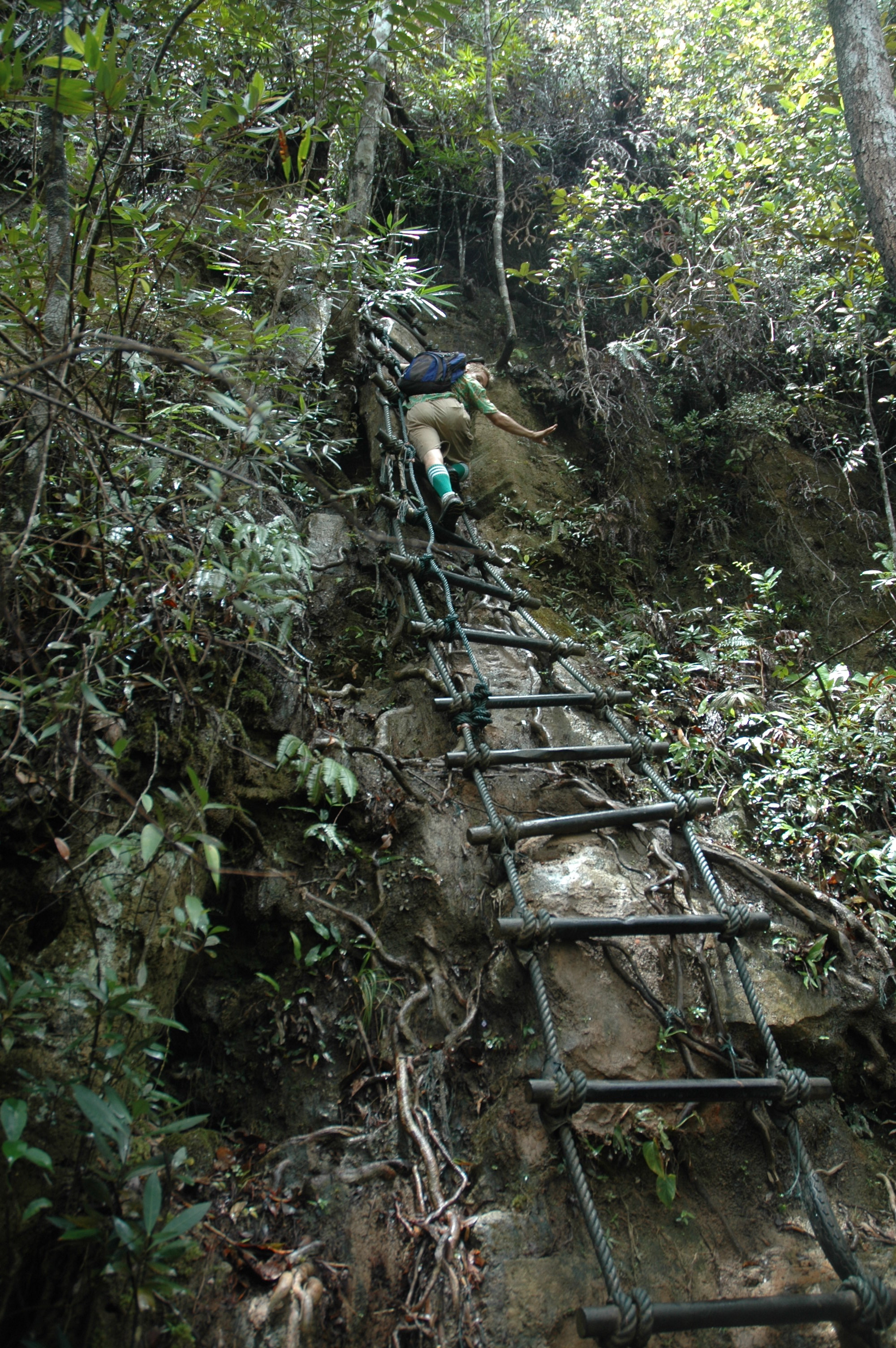 View forming part of the arduous ascent up the mountain